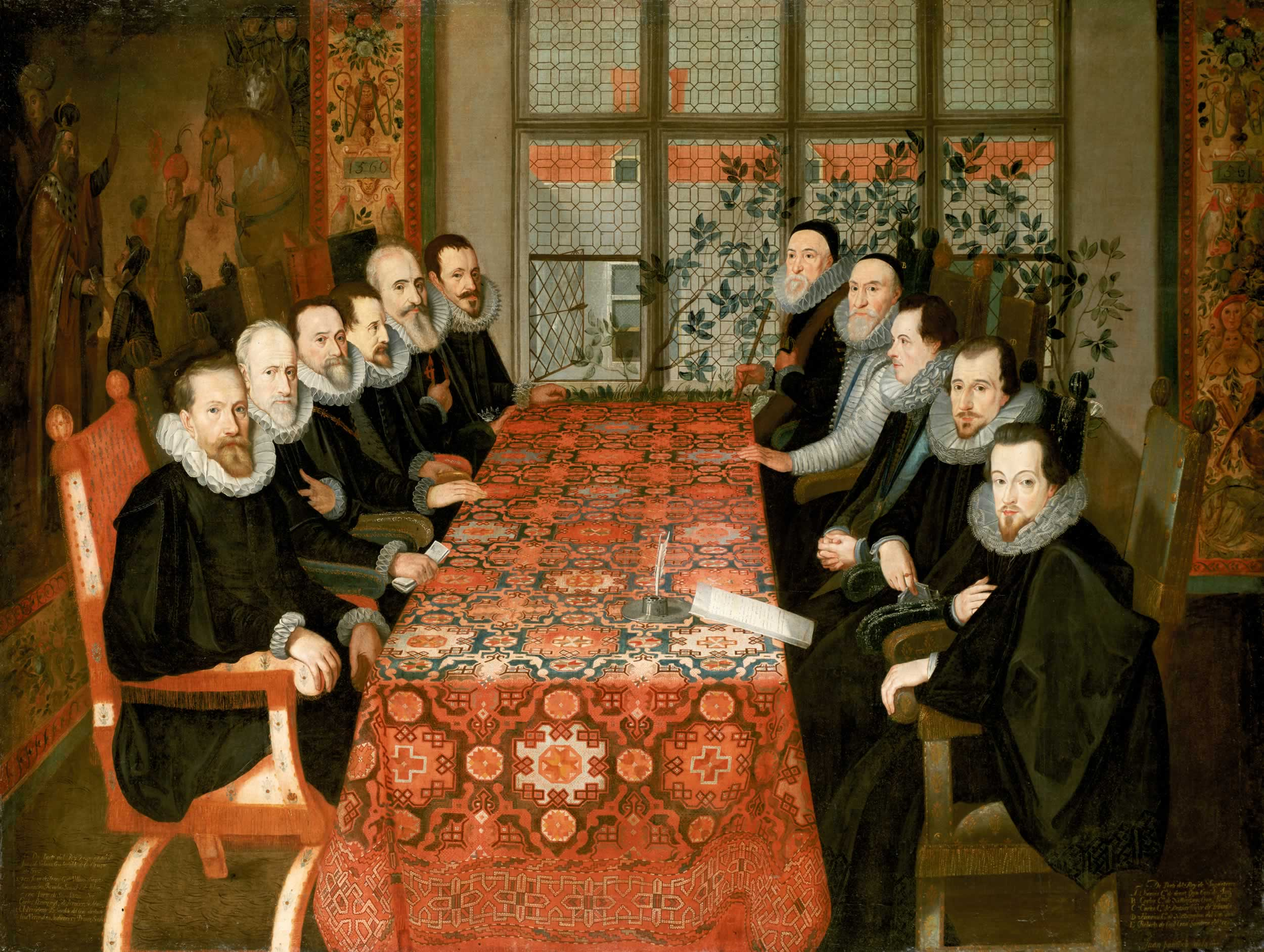 The Somerset House Conference 19 August 1604. Spanish delegation on the left, English delegation on the right.